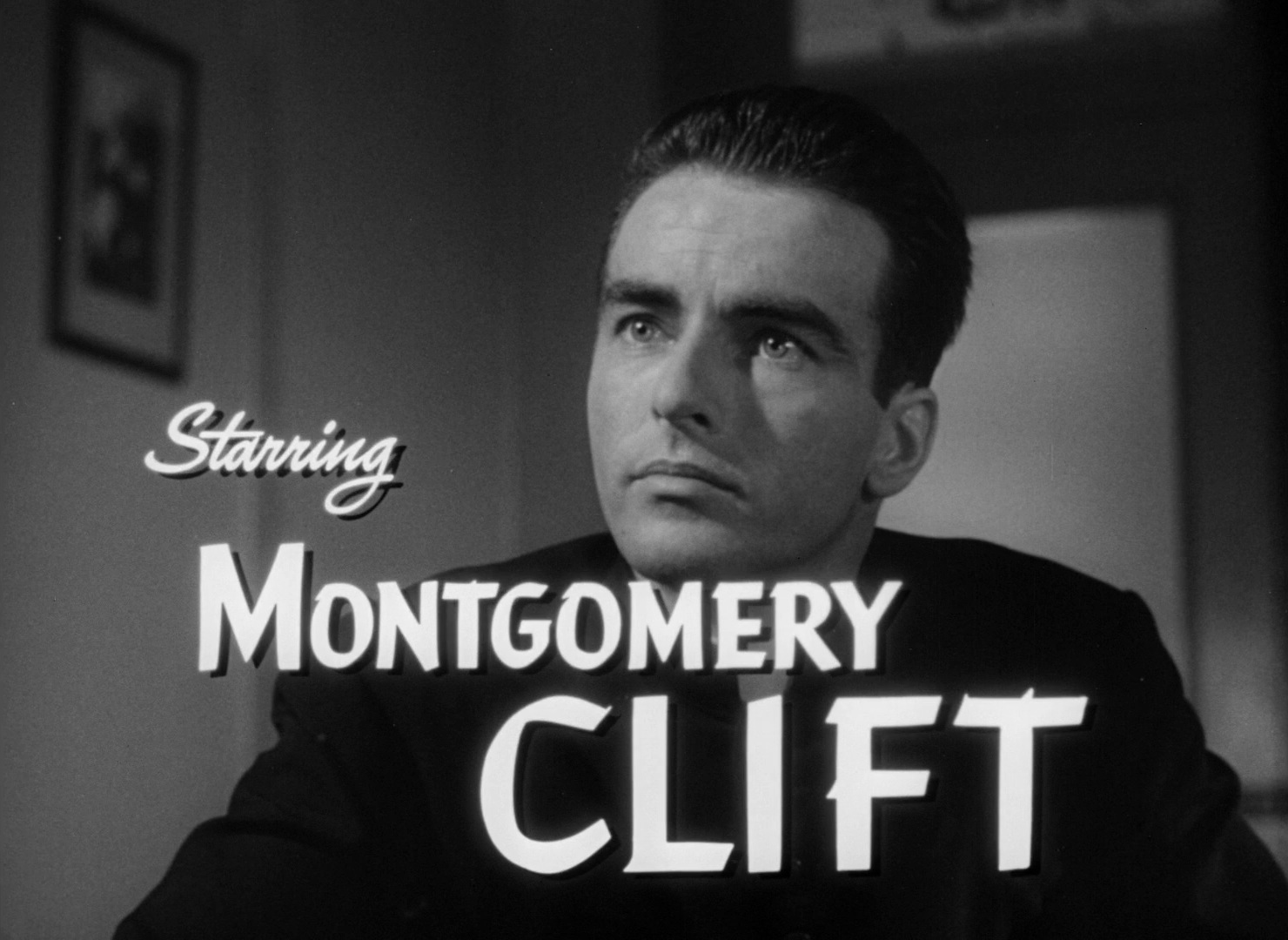 Cropped screenshot of Montgomery Clift from the trailer for the film I Confess.